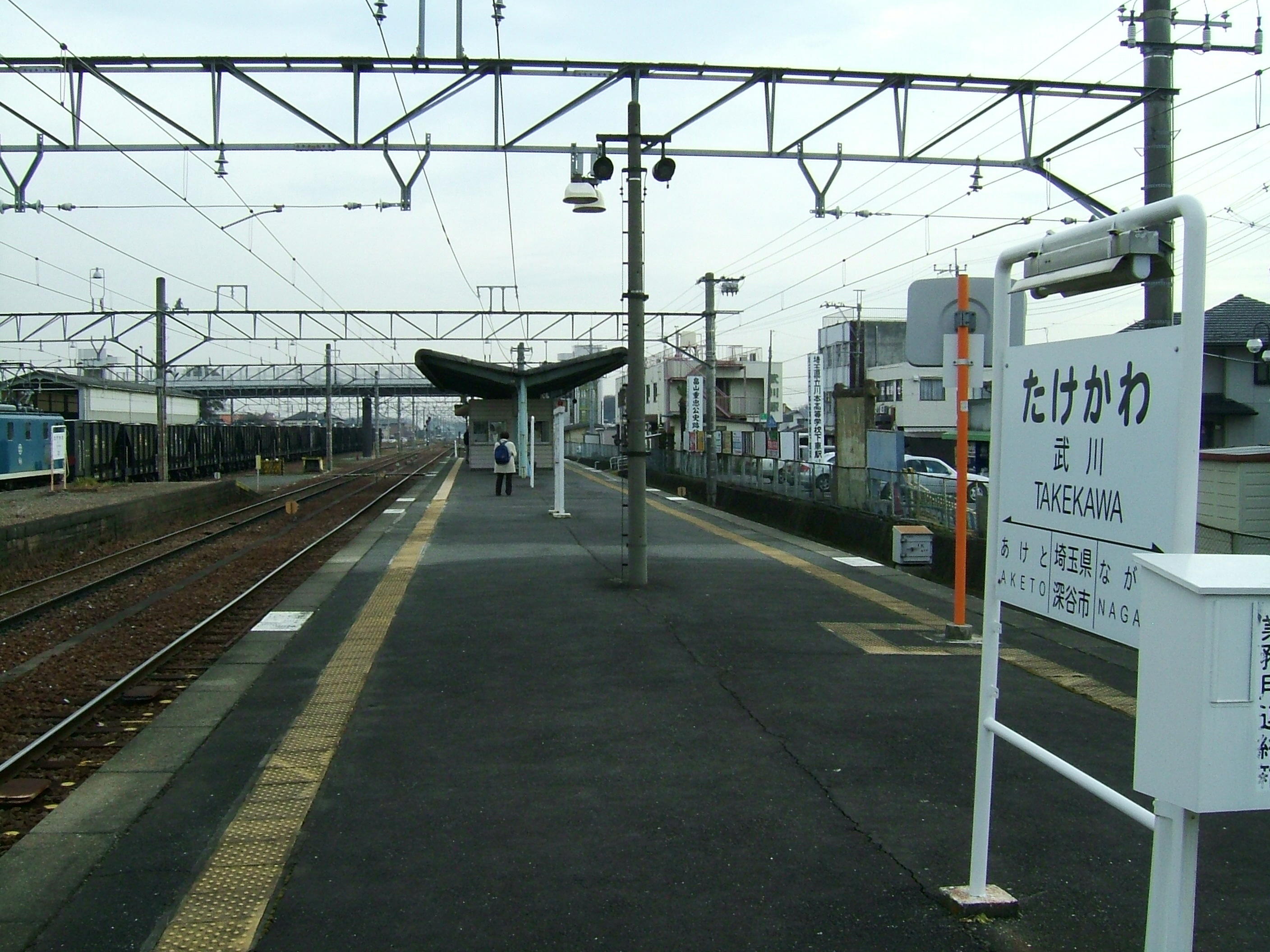 The platform at Takekawa Station on the Chichibu Main Line